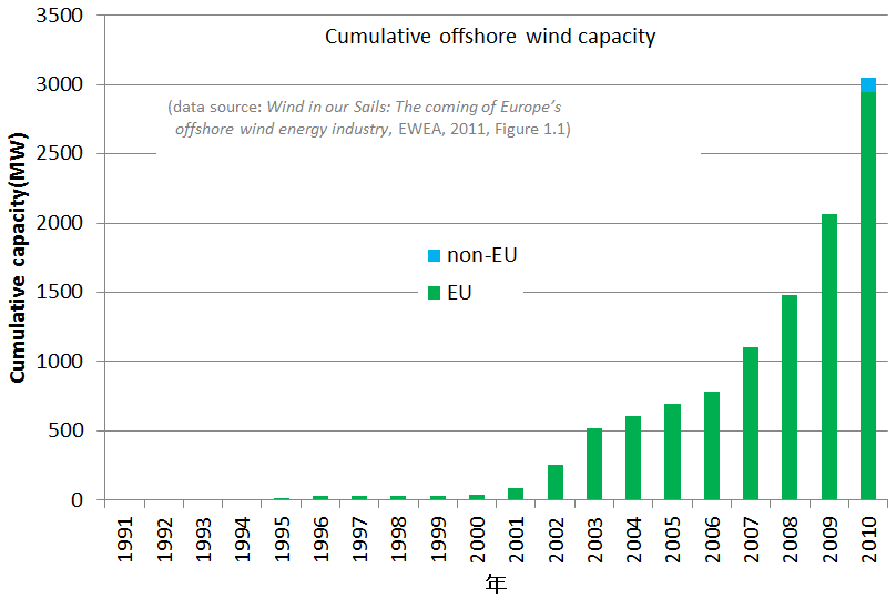 Cumulative offshore wind power capacity data source: Wind in our Sails: The coming of Europe’s offshore wind energy industry, EWEA, 2011, Figure 1.1 [1]